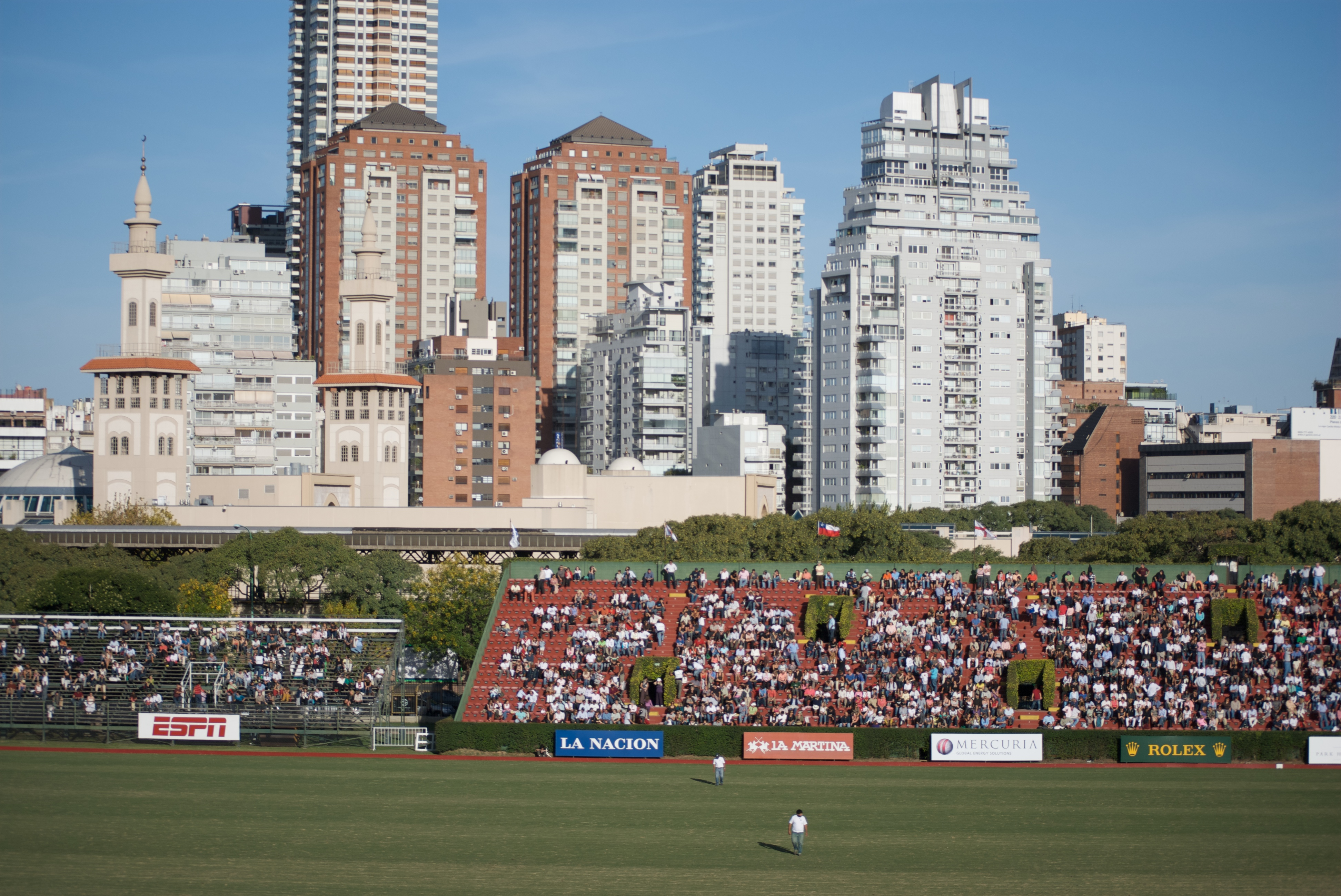 The Argentine Polo Grounds. Palermo, Buenos Aires. The twin Quartier Demaría towers (1996) are in the middle.